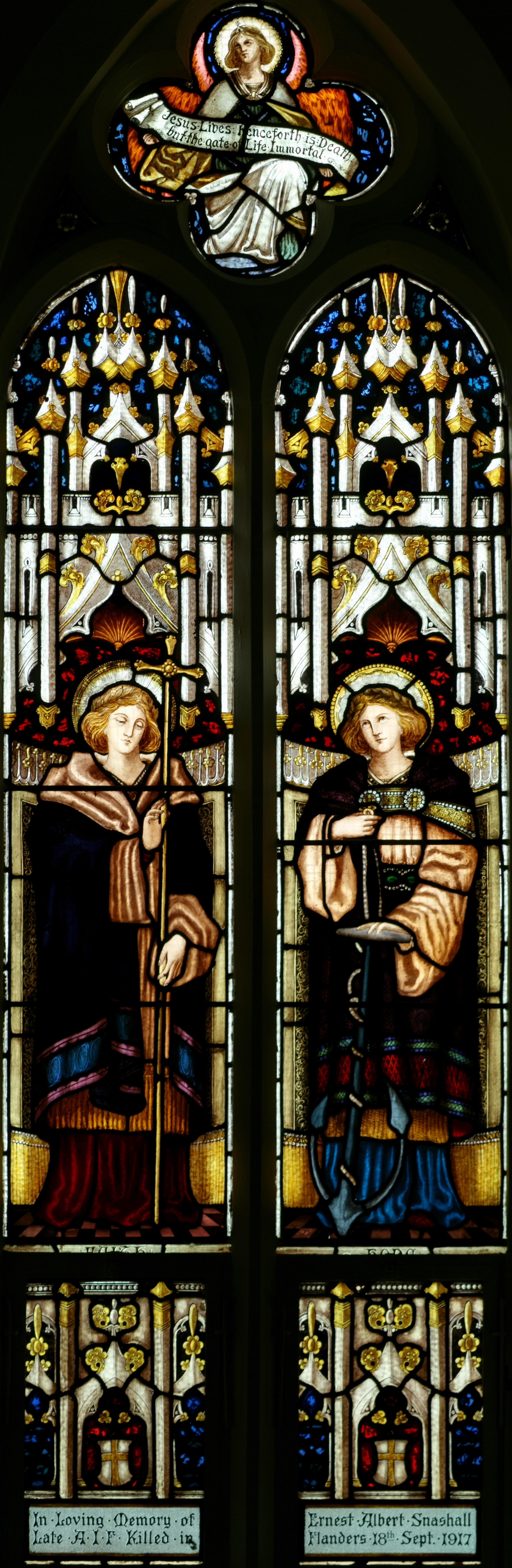 Stained glass window in the nave of St. John's Anglican Church, Ashfield, New South Wales (NSW). This window depicts Faith (left) and Hope (right) personified. The inscription on this memorial window reads "In Loving Memory of Ernest Albert Snashall. Late A.I.F. Killed in Flanders 18th Sept 1917."